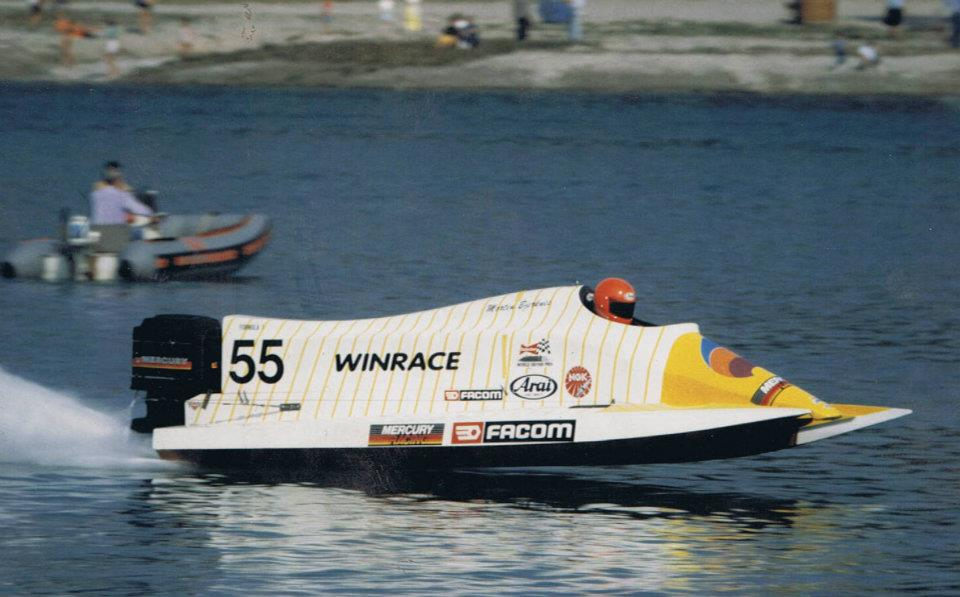 Lignano Grand Prix 1987